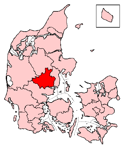 Map of Skanderborg County 1793-1970